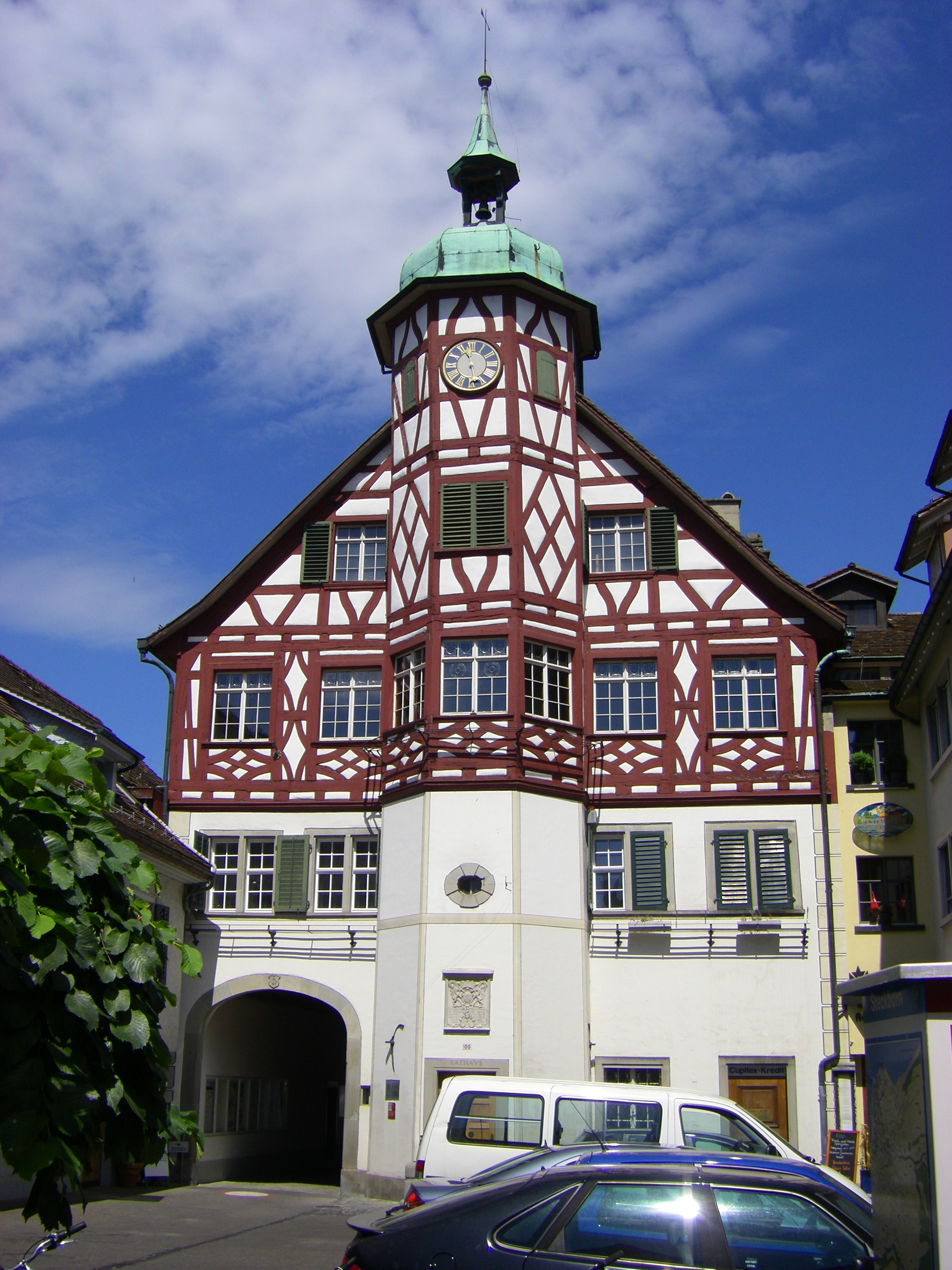 The city hall of Steckborn (Switzerland) on the Untersee, a part of Lake Constance.